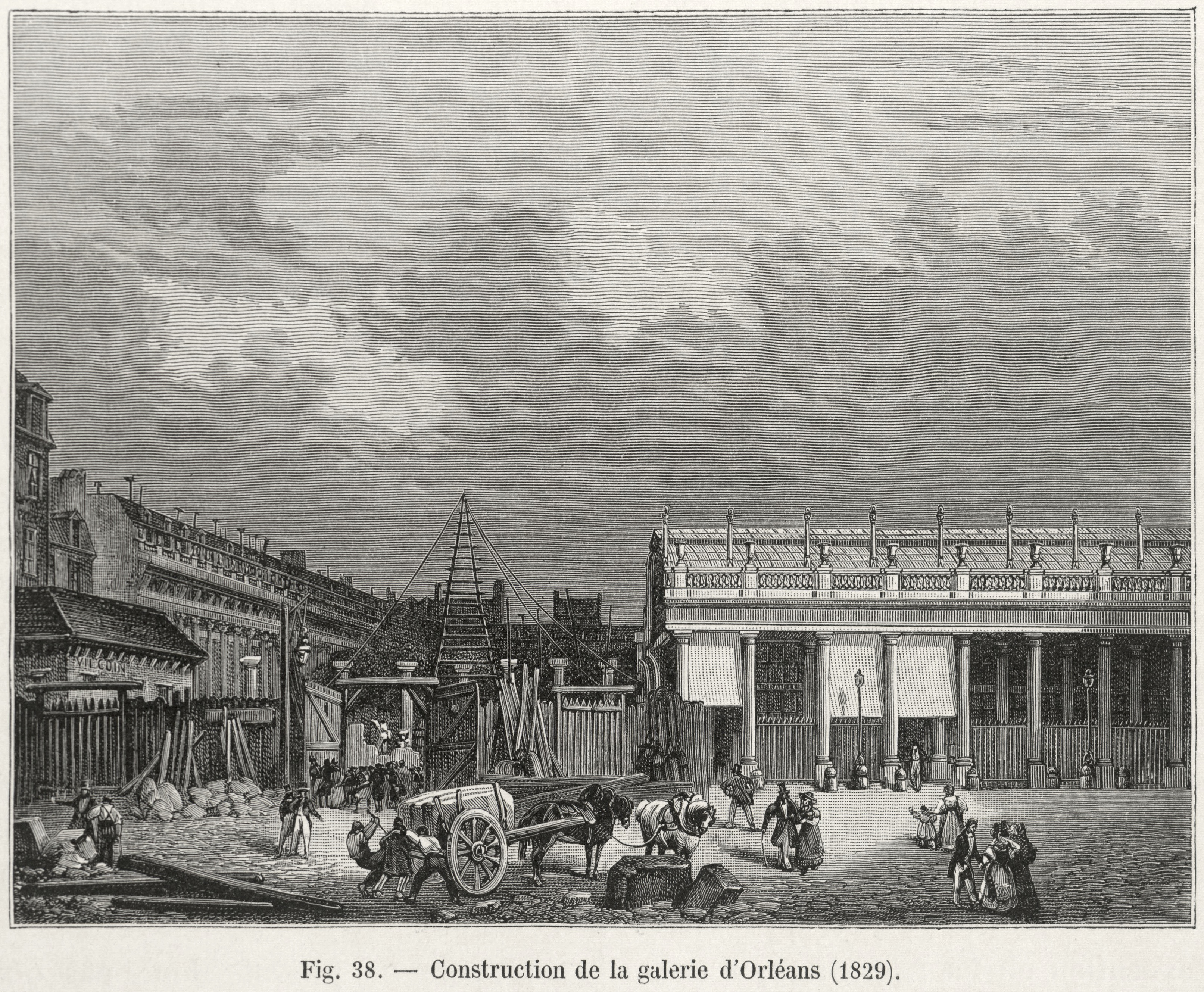 Located in the Palais Royal, the Galerie d'Orléans was constructed in 1829 in place of the Galeries de Bois, and extended across the interior court of the Palais. Due to its relatively poor location and competition with other arcades, the Galerie d'Orléans was one of the least successful arcades of the nineteenth century. It was partially demolished in 1935 in an attempt to restore life to the Palais-Royal, leaving an open courtyard in the first arrondissement.